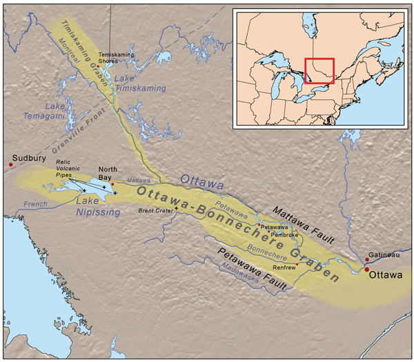 This is a map of the Ottawa-Bonnechere Graben. Elevation data and U.S. boundaries from USGS, Canadian boundaries and hydrology from Digital Chart of the World. Ottawa-Bonnechere Graben boundaries based on elevation data with [1], [2], [3], and [4] used as references.